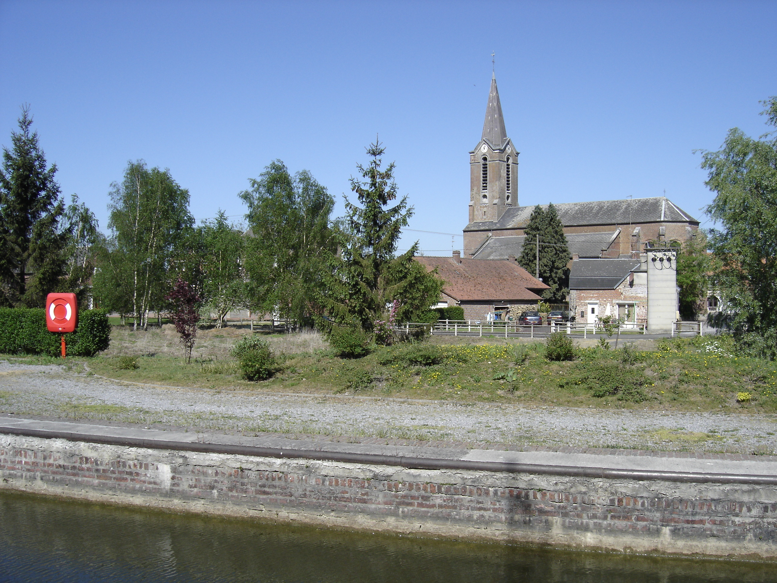 Church of Ors